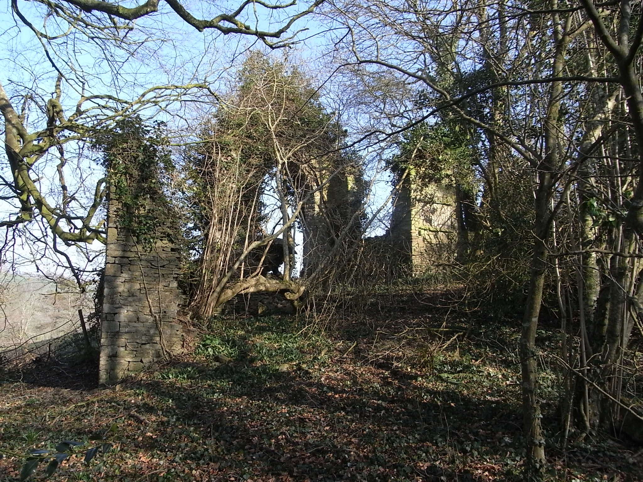 Ruins of mediaeval chapel formerly attached to Yeo Vale House, licenced by Bishop of Exeter in 1408, dismantled early 19th century and removed to present location on a hill 1/4 mile south of house to create a folly or eyecatcher. Looking eastwards into chancel.